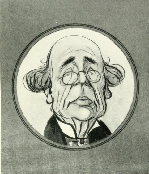 Cartoon of John Richard Clayton